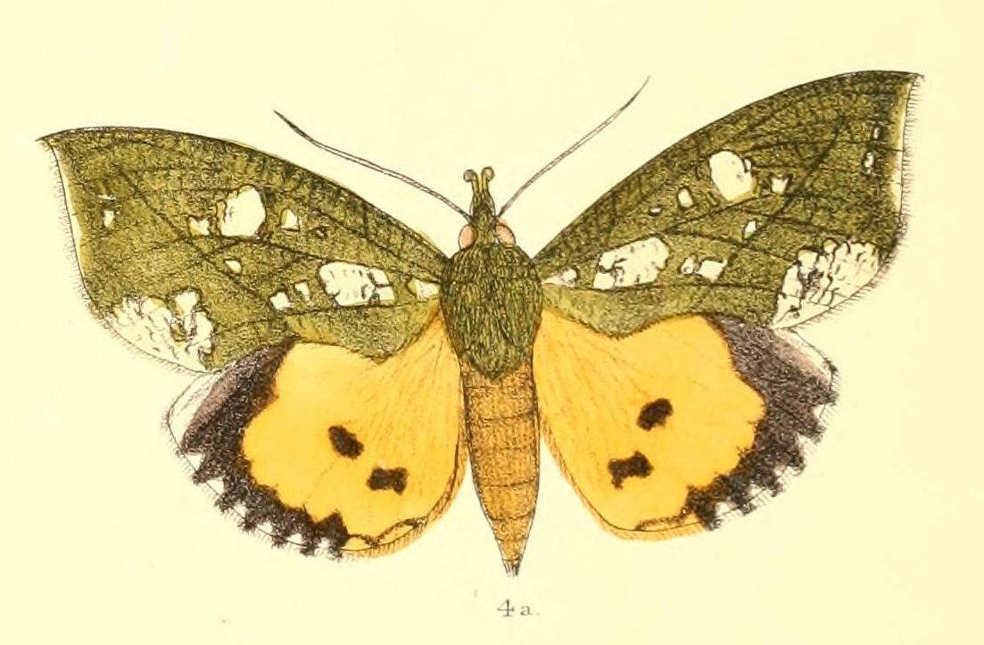 Rhytia hypermnestra female Moore, Frederic 1880 On the genera and species of the Lepidopterous Subfamily Ophiderinae inhabiting the Indian Region. Zoological Society of London